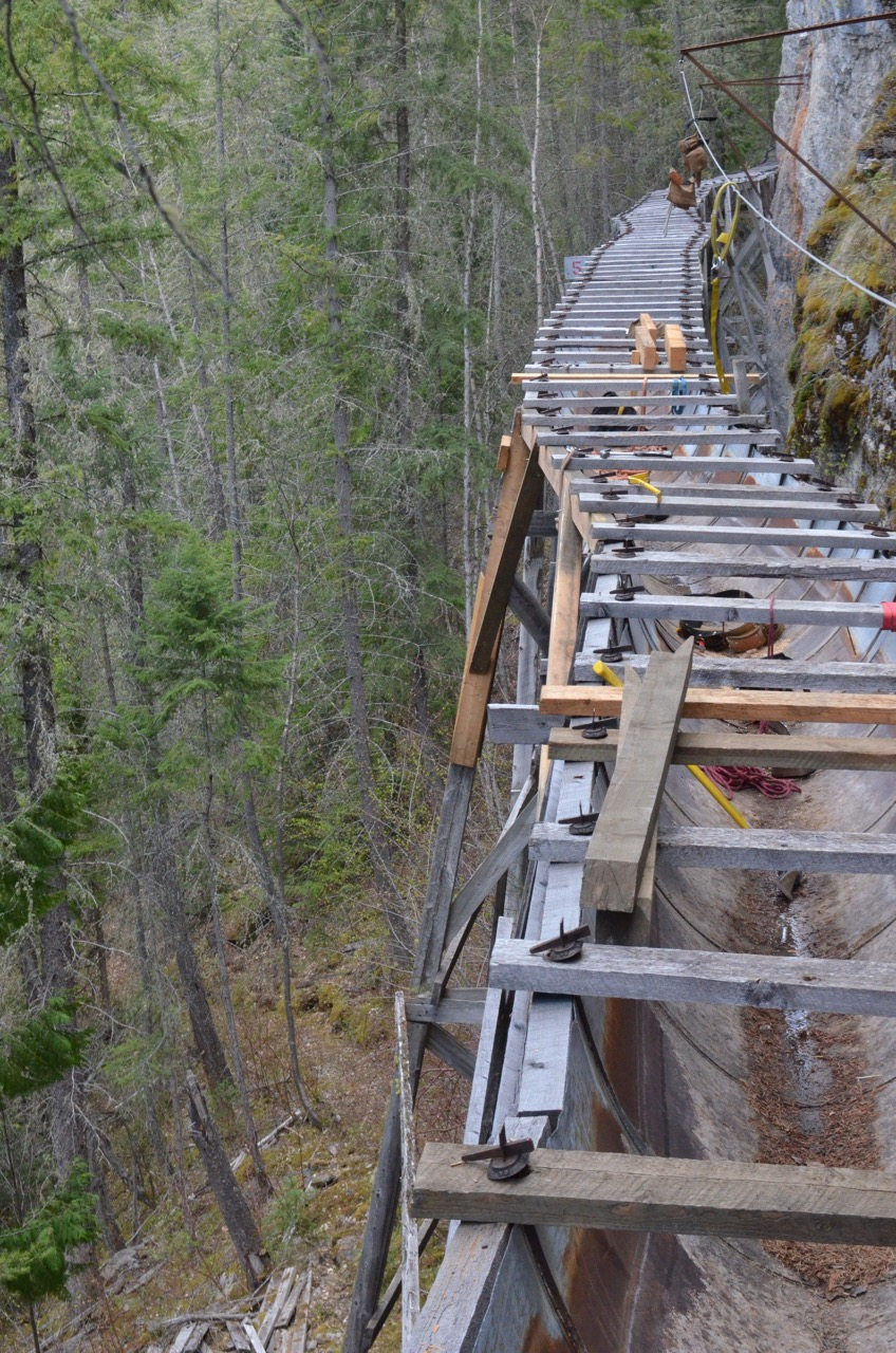 Working to replace parts on operational irrigation flume in the East Kootenay, British Columbia Canada. This flume runs 8km to provide water to a few dozen farms. Built in 1912.